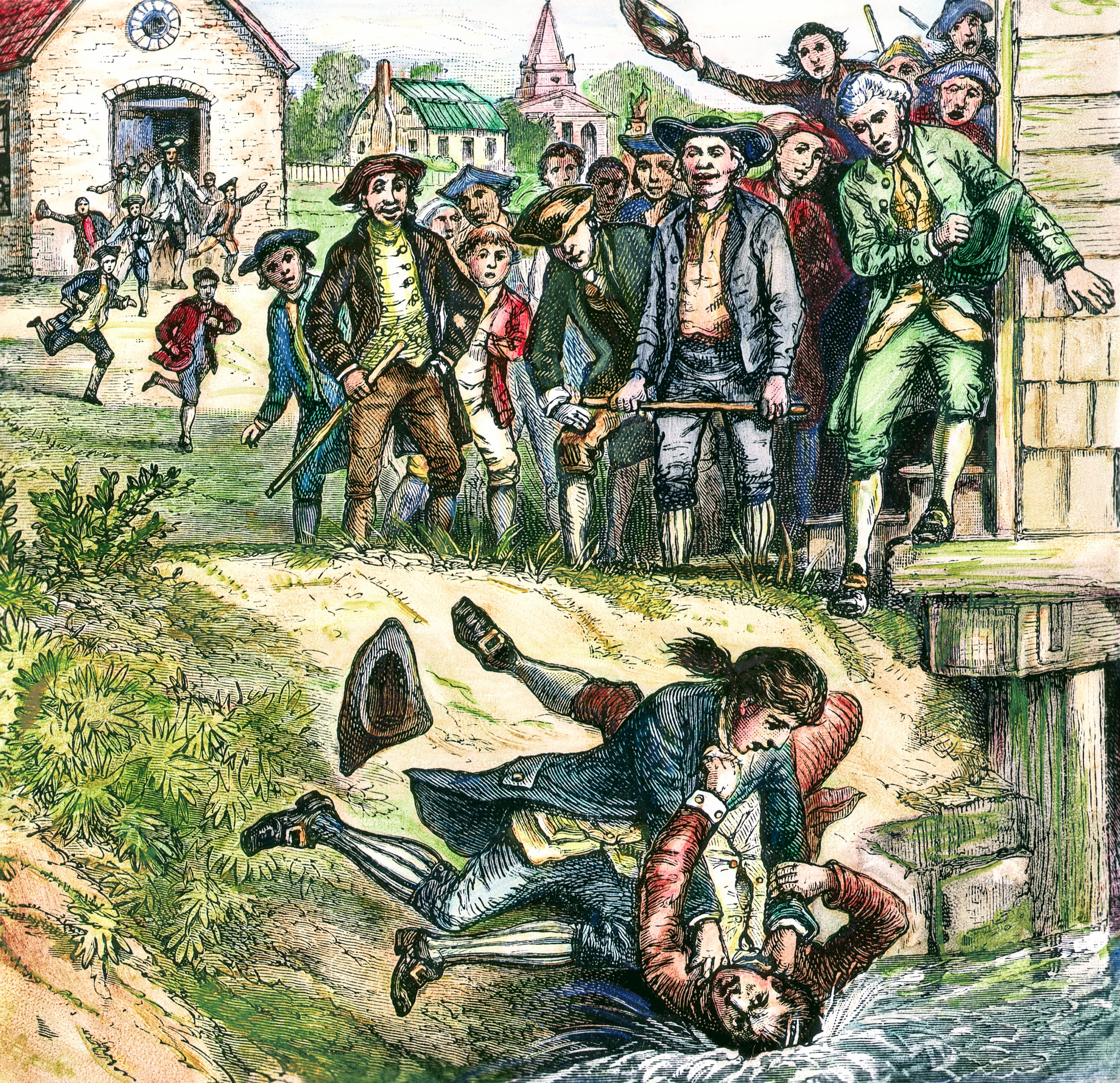 Shays' protesters taking down a tax collector